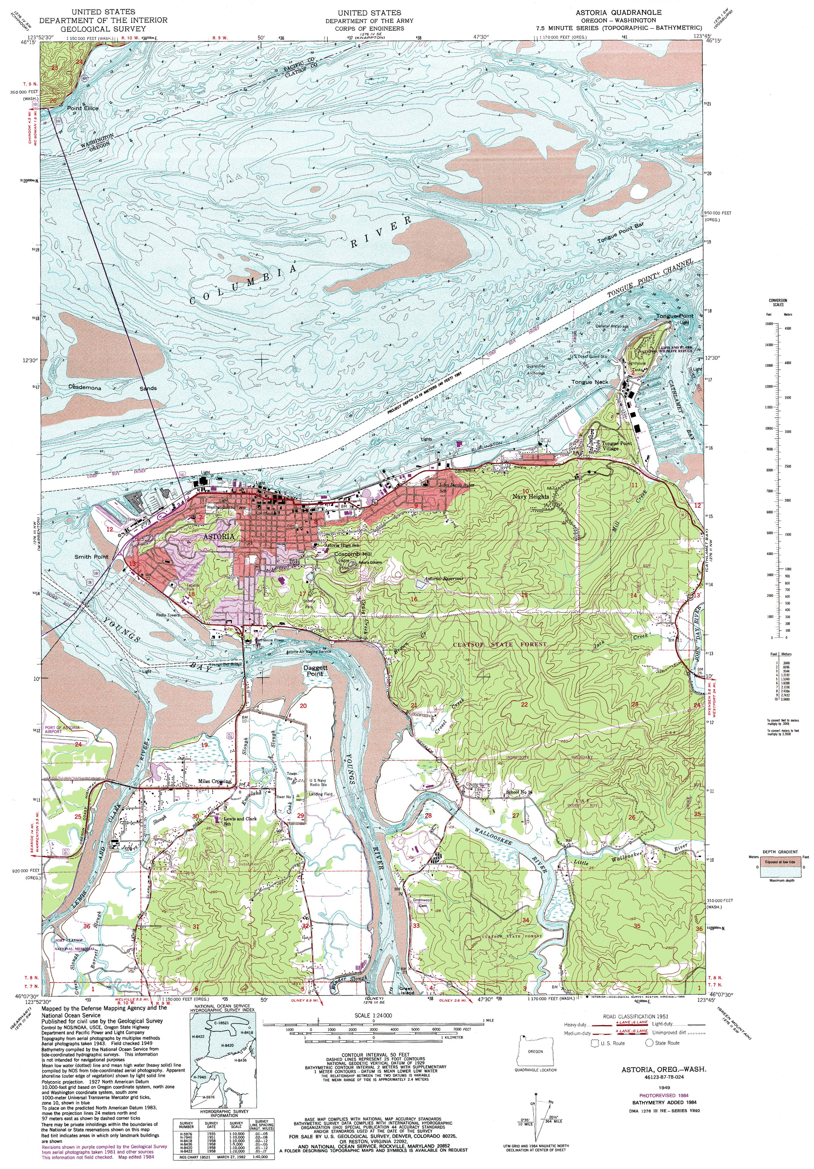 USGS 7.5-minute topographic map: Astoria, OR